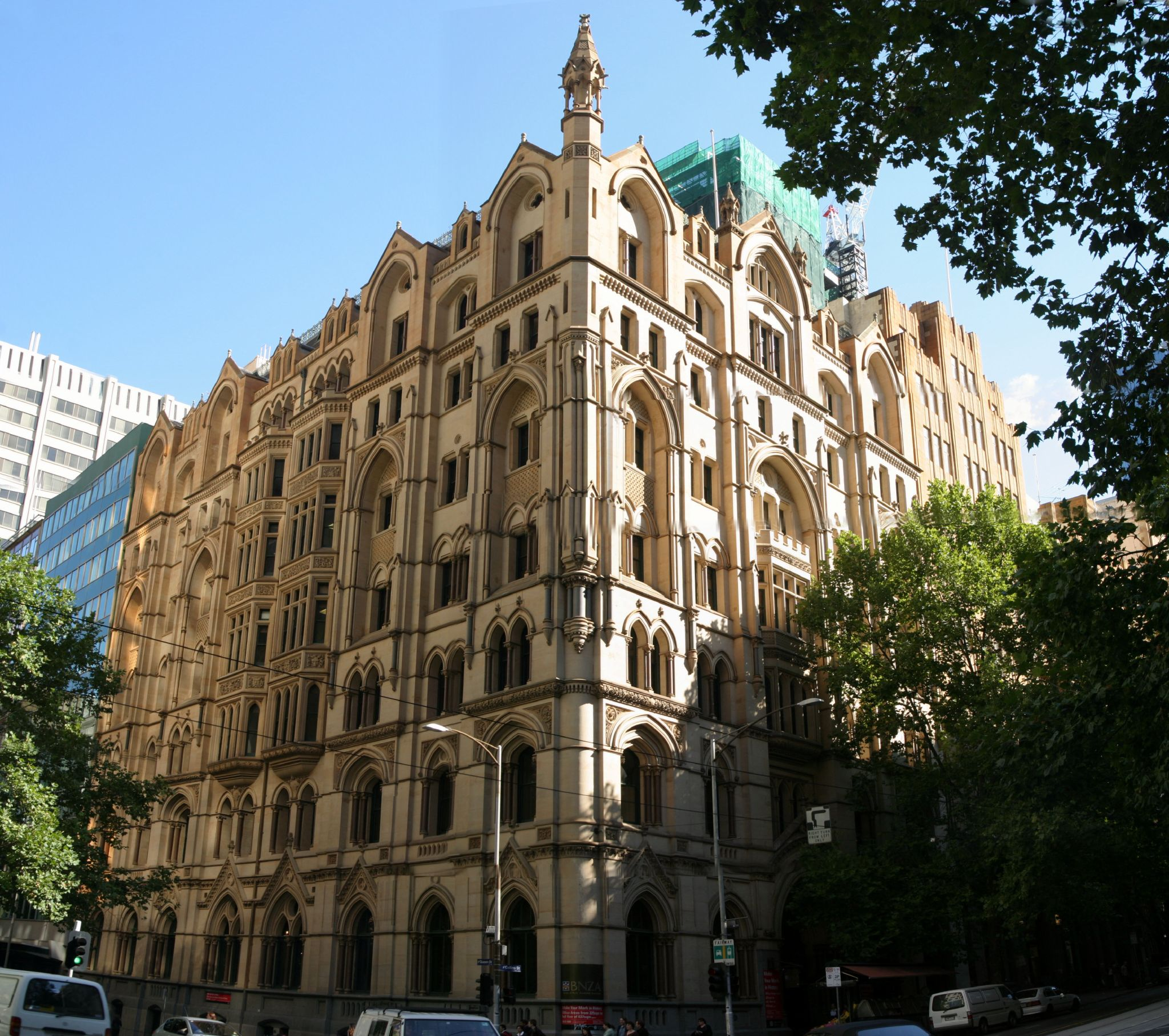 395 Collins st for Caro boulevard.dodgy panorama